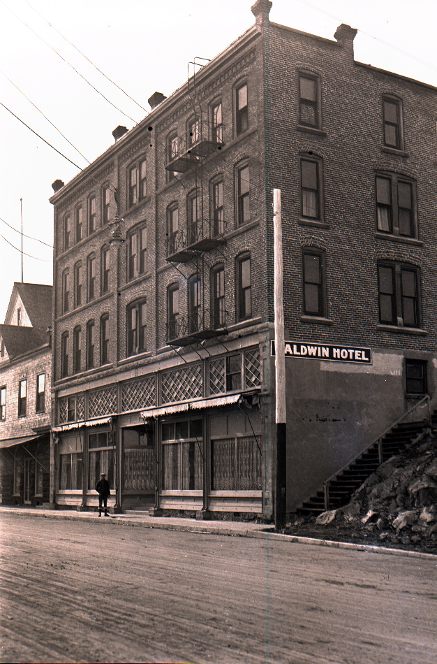 Baldwin Hotel. Klamath Falls Oregon. Photographer: F. Paul Keen Date: Unknown; early 1920s Credit: USDA Forest Service, Pacific Northwest Region, State and Private Forestry, Forest Health Protection. Collection: Bureau of Entomology, F. Paul Keen Collection; La Grande, Oregon. Image: FPK-111 To learn more about this photo collection see: Wickman, B.E., Torgersen, T.R. and Furniss, M.M. 2002. Photographic images and history of forest insect investigations on the Pacific Slope, 1903-1953. Part 2. Oregon and Washington. American Entomologist, 48(3), p. 178-185. For more about the Baldwin Hotel, see: Image provided by USDA Forest Service, Pacific Northwest Region, State and Private Forestry, Forest Health Protection